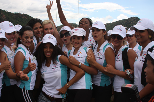 Team of sports winner Miss Iceland celebrating. Taken in the sports event of Miss World 2008